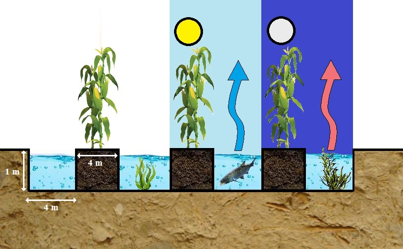 A schematic illustration of Waru Waru cultivation - with possible sizes - in the daytime the water in the gutter cools the microclimate - at night the water gives off heat